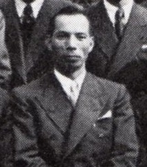 Nakayama Sadayosi is an Imperial Japanese Navy Commander and Admiral of the JMSDF